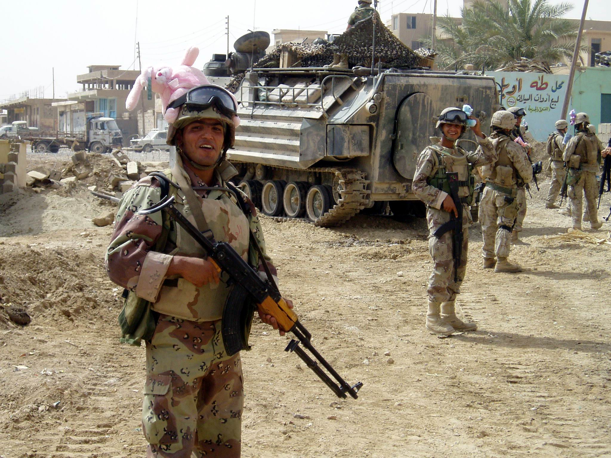 The Iraqi soldiers liked the idea of passing out teddy bears to kids. So, they attached them to their helmets like we did.Iraqi Soldier